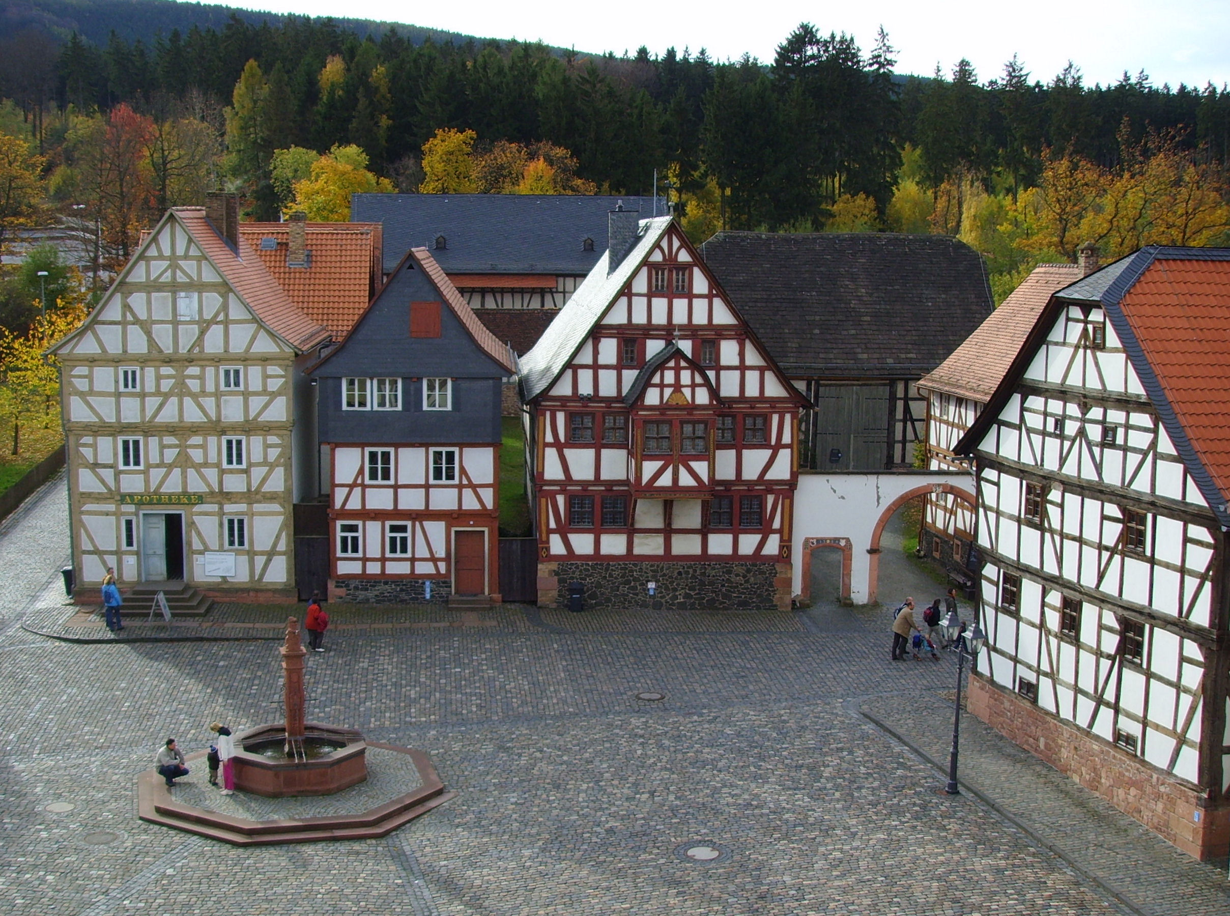 Open air museum "Hessenpark", Hessen, Germany